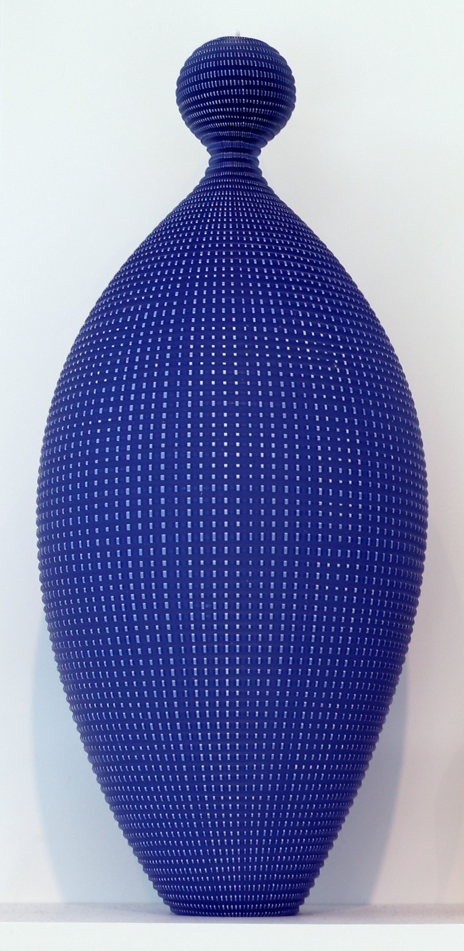 Glassware in the Speed Art Museum